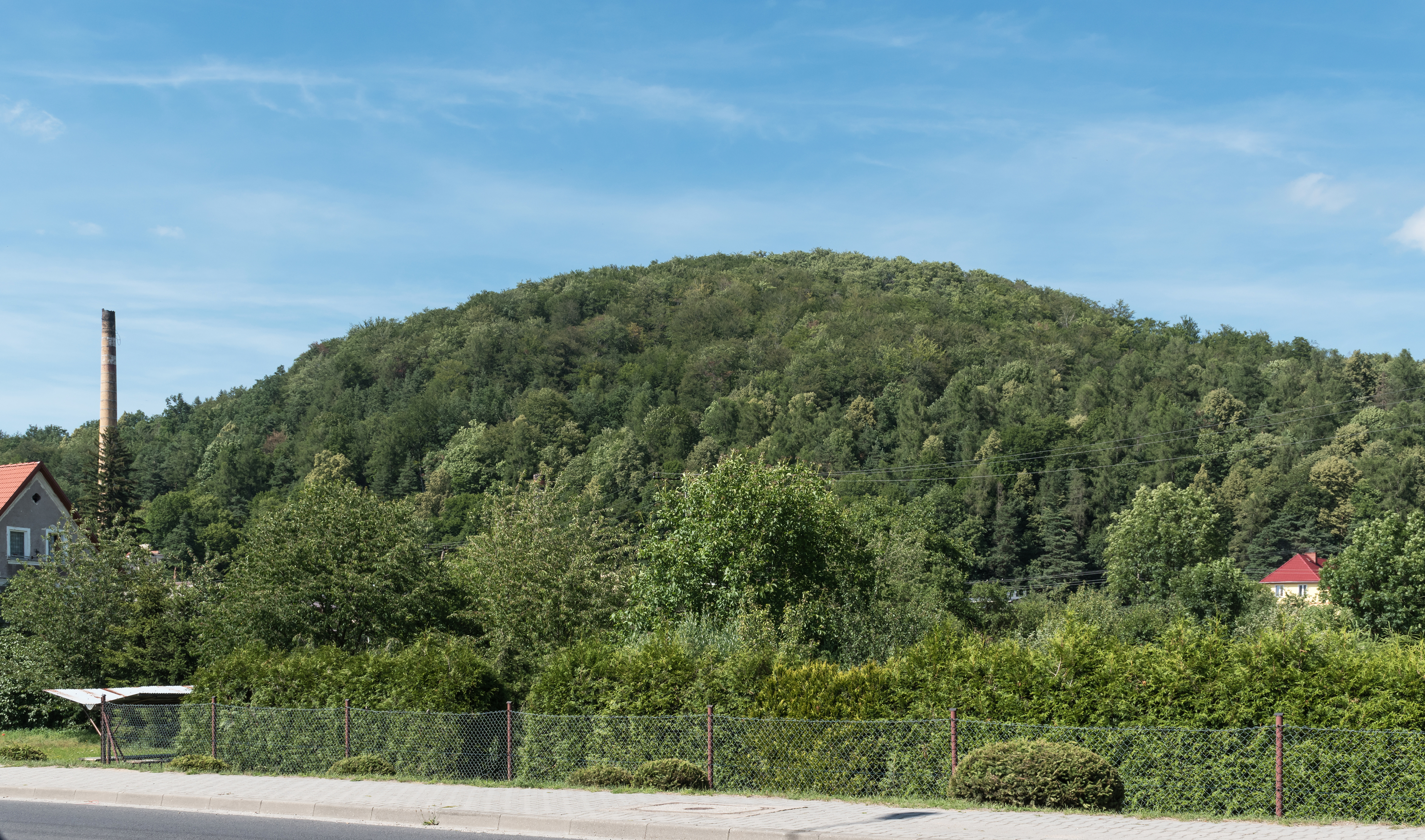 Bukówka, Rogówka Hills, Sudetes